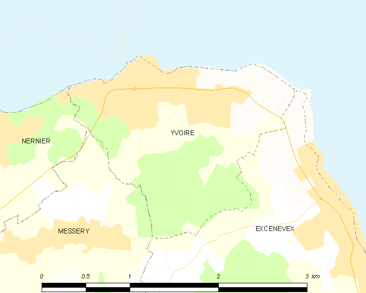 Map of French municipality Yvoire